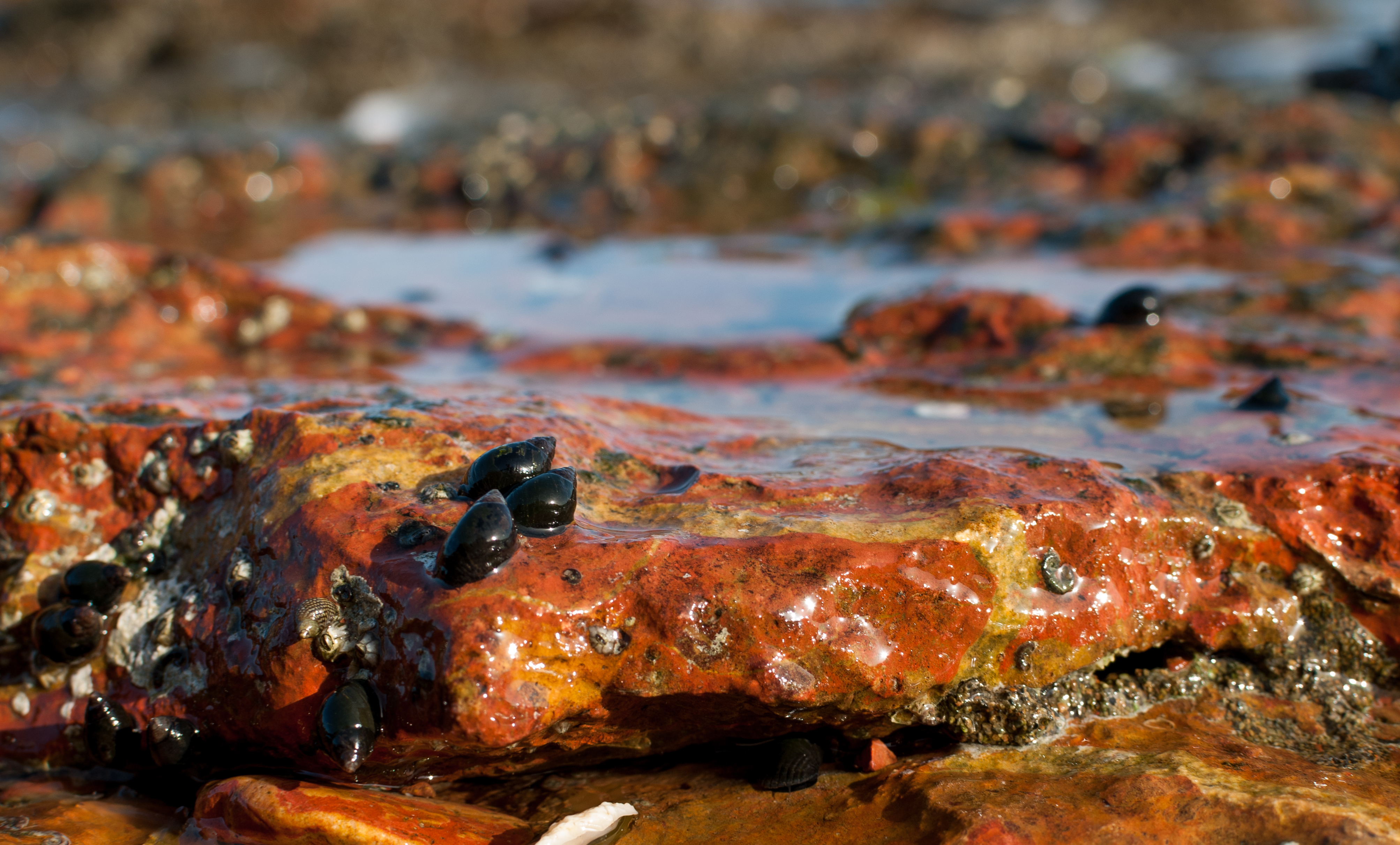 Echinolittorina meleagris (Potiez & Michaud, 1838) in El Yaque Beach